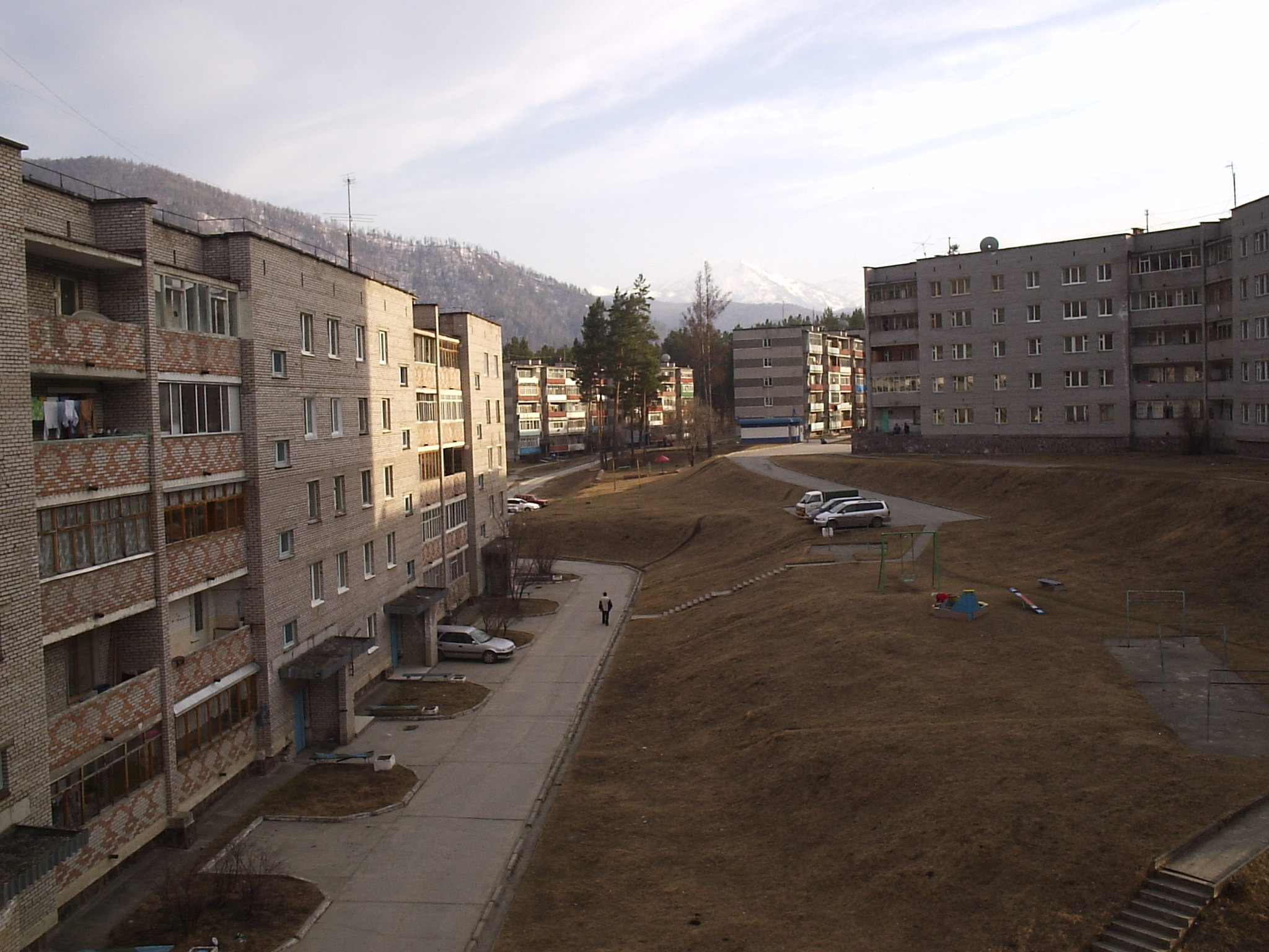 Cheryomushki, Khakassia, with the Borus Range of the Sayan Mountains